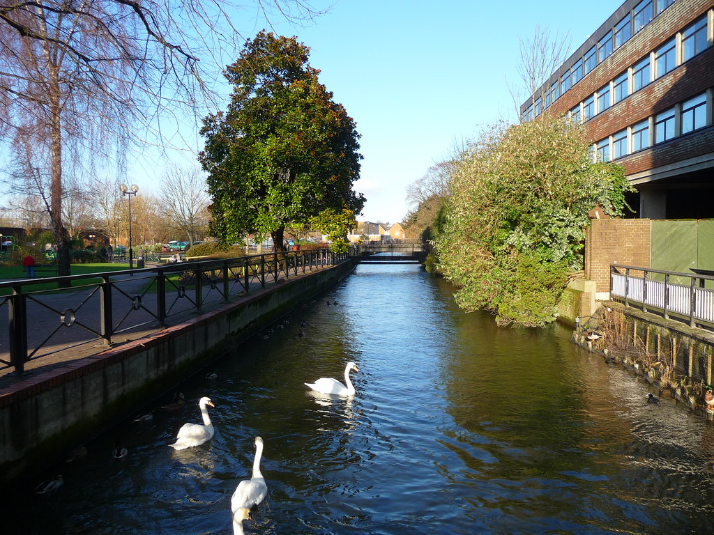 Salisbury - River Avon Swans on the River avon as it flows though Salisbury.